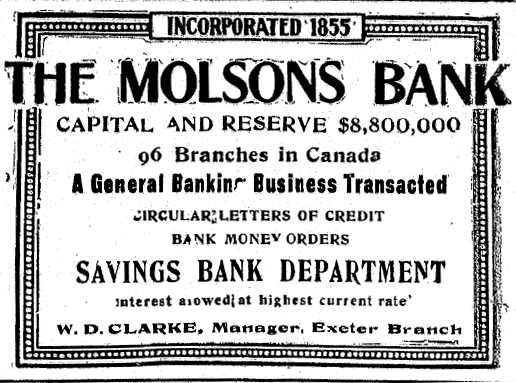 Molsons Bank ad from 1916, in a small Southern Ontario farming community.